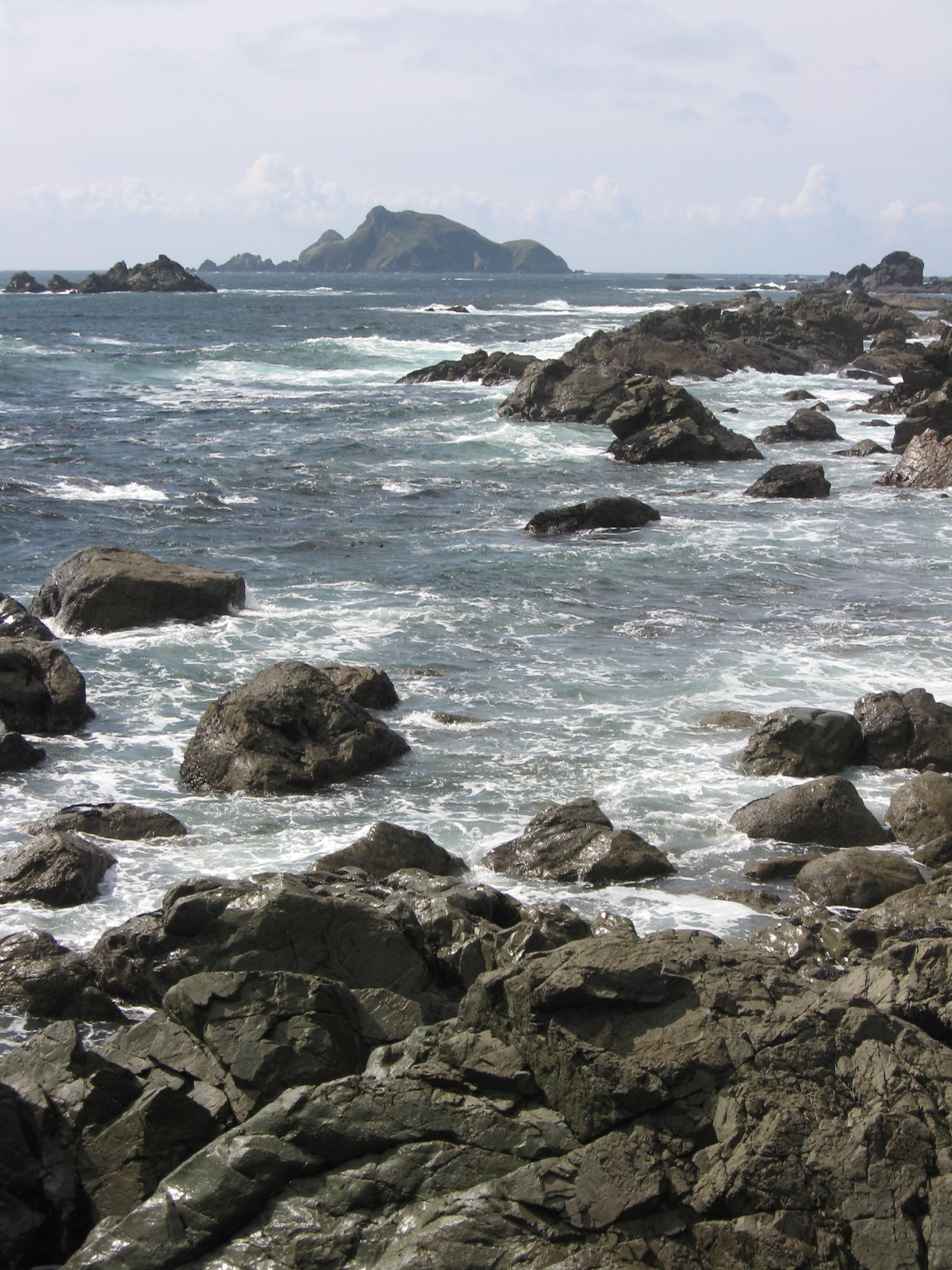 Solander Island Ecological Reserve, as seen from the western corner of Brooks Peninsula Provincial Park.